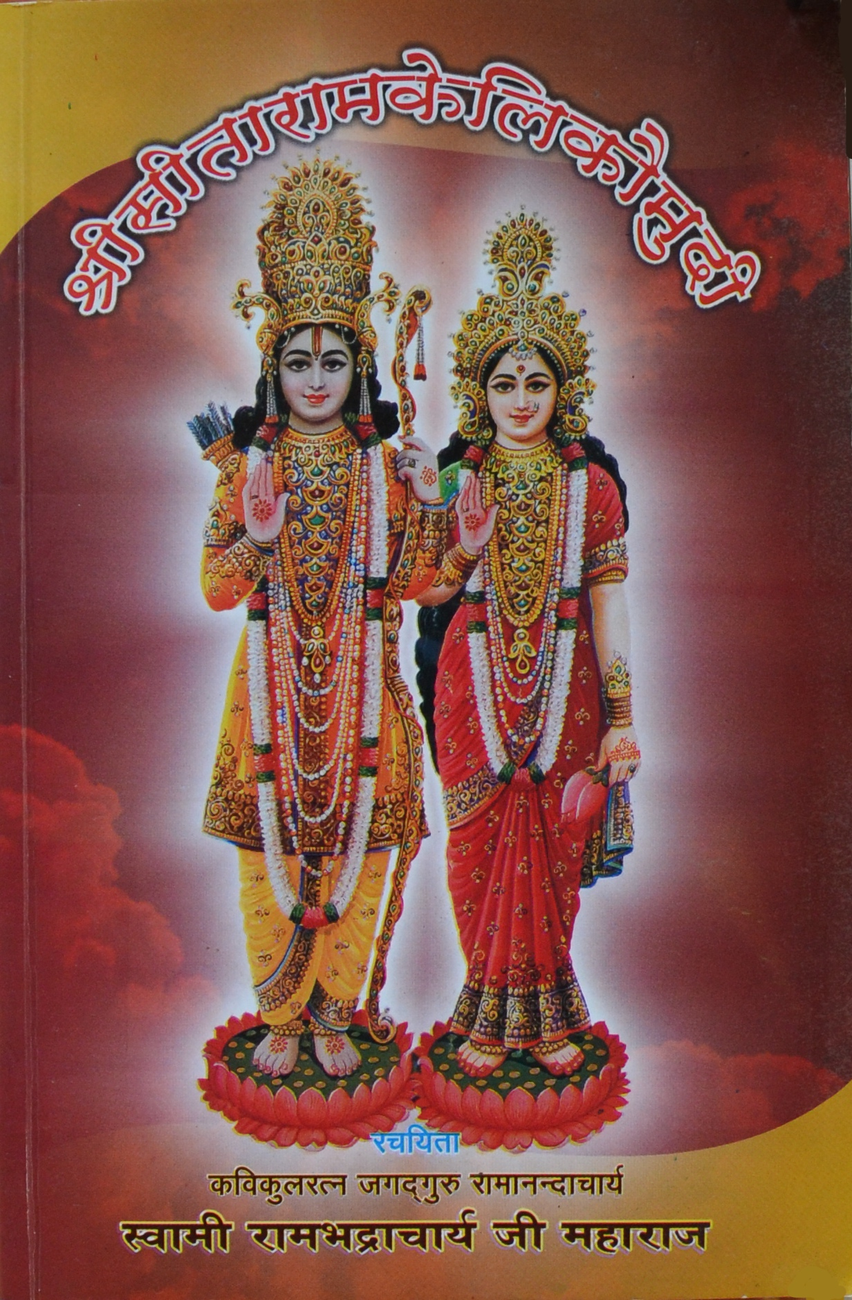 Cover page of Srisitaramakelikaumudi